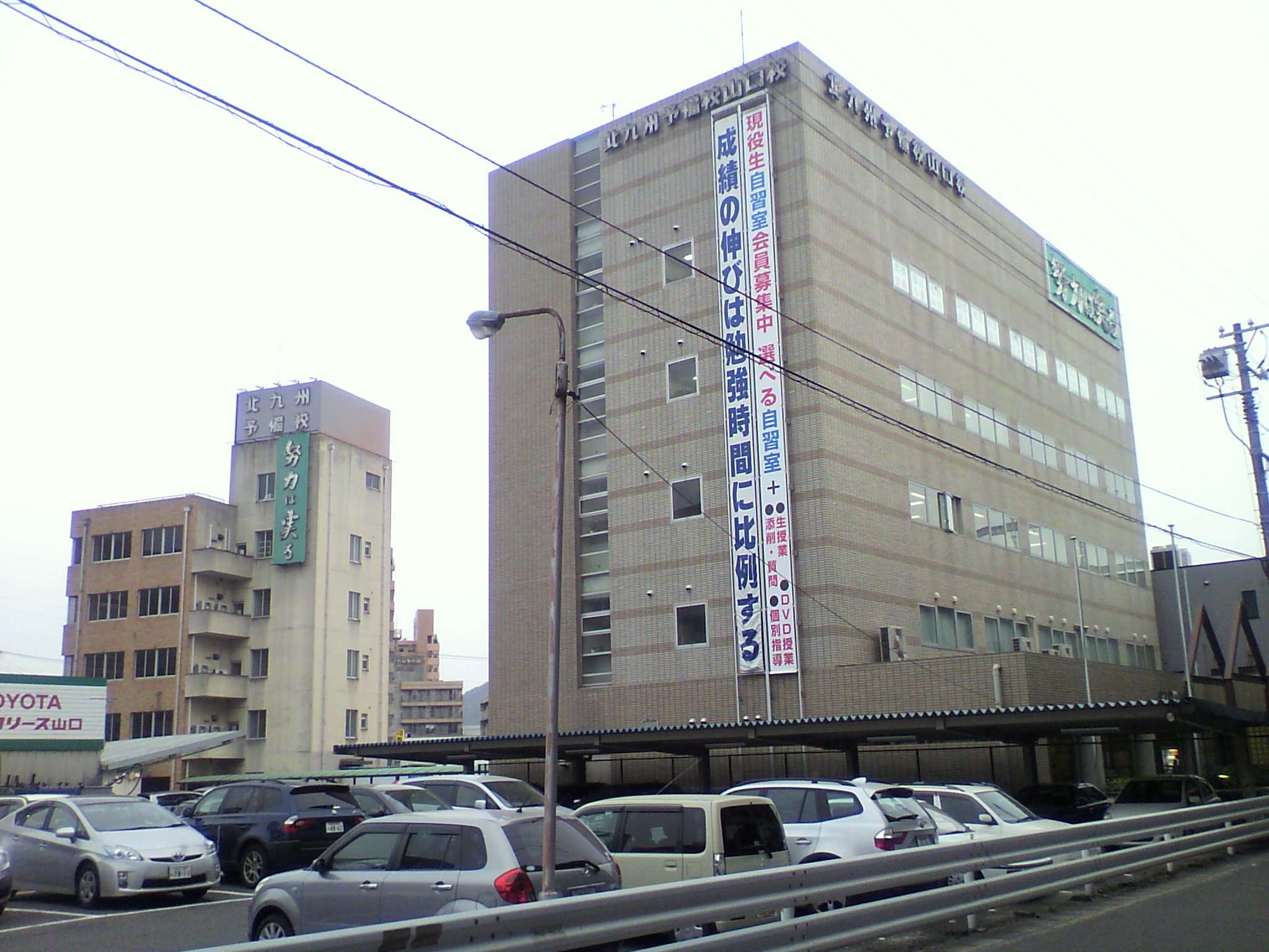 Kitakyushu Yobiko Yamaguchi